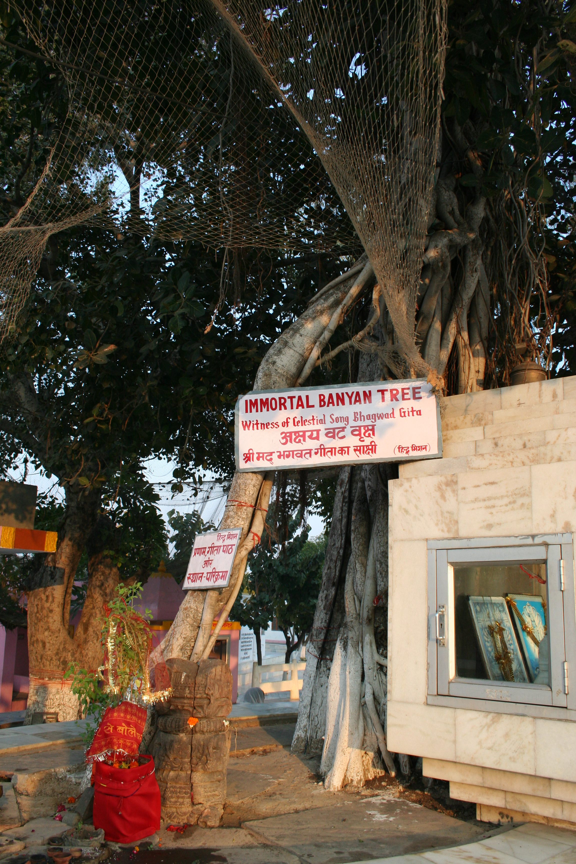 The Holy Peepal tree - witness to the Divine message of Sri Bhagavad Geeta by Lord Sri Krishna to Arjuna at this place during the Mahabharata war.